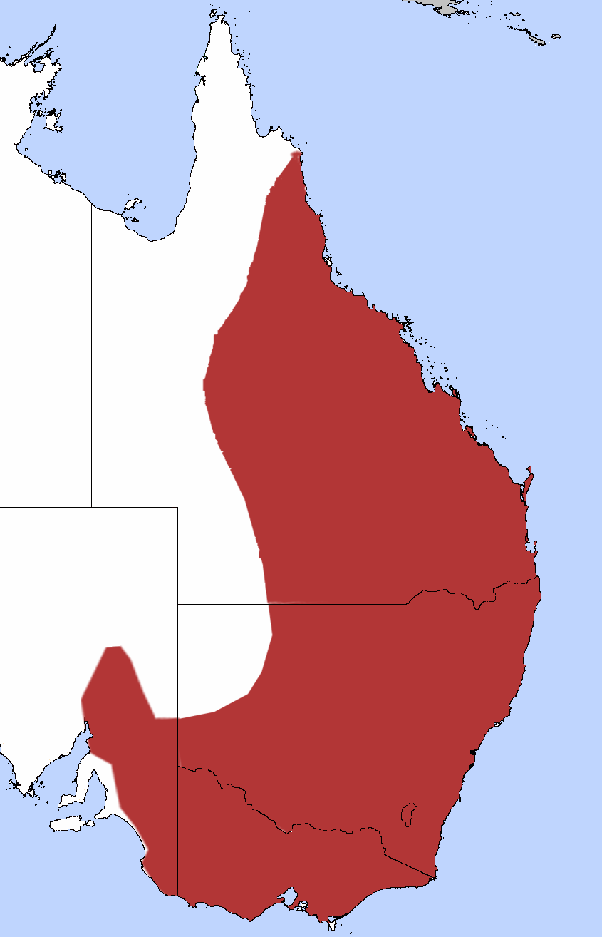 The Yellow Thornbill's Distribution.